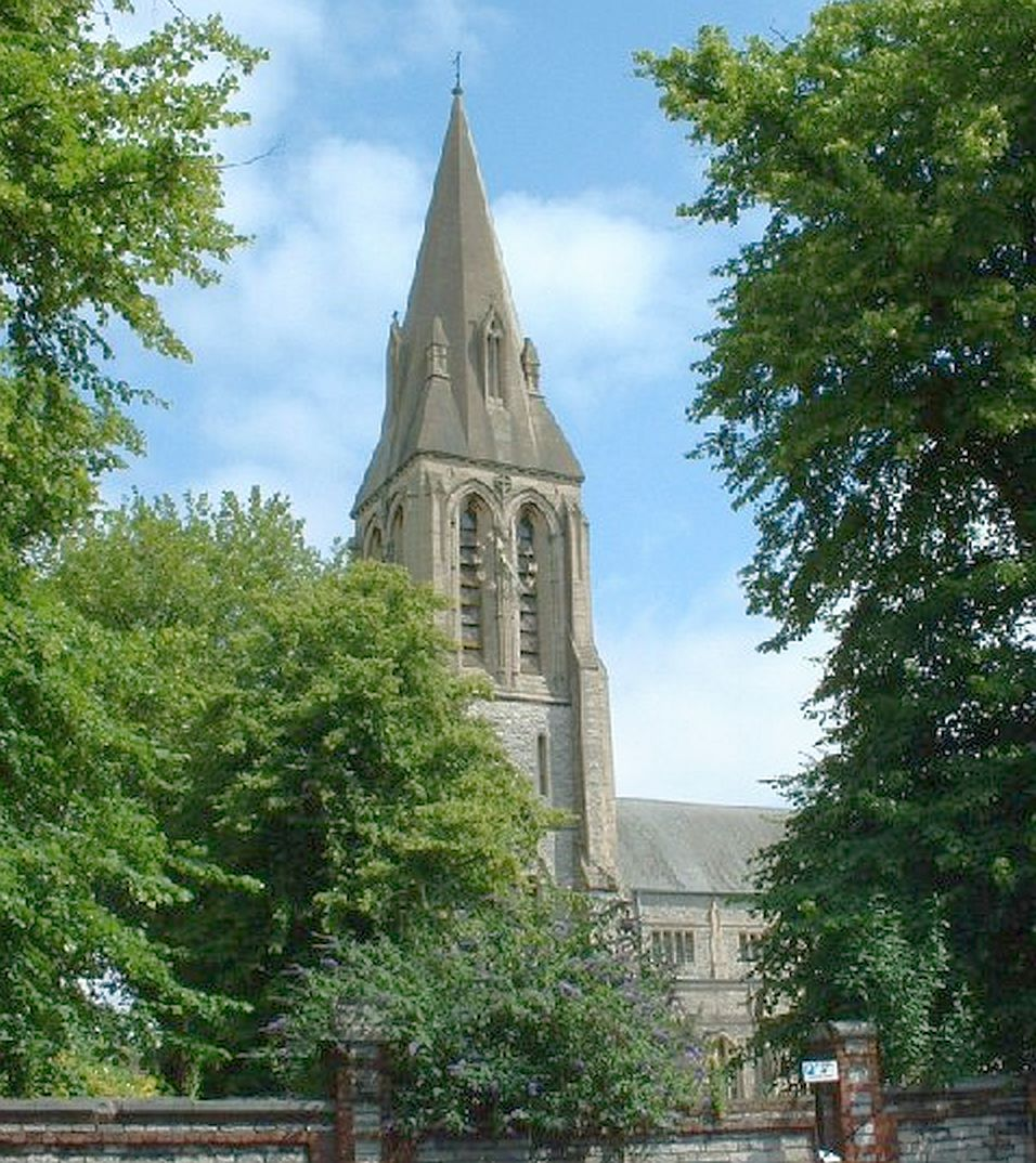 Southwest tower and spire of St Mary's parish church, St Mary's Street, Southampton, Hampshire